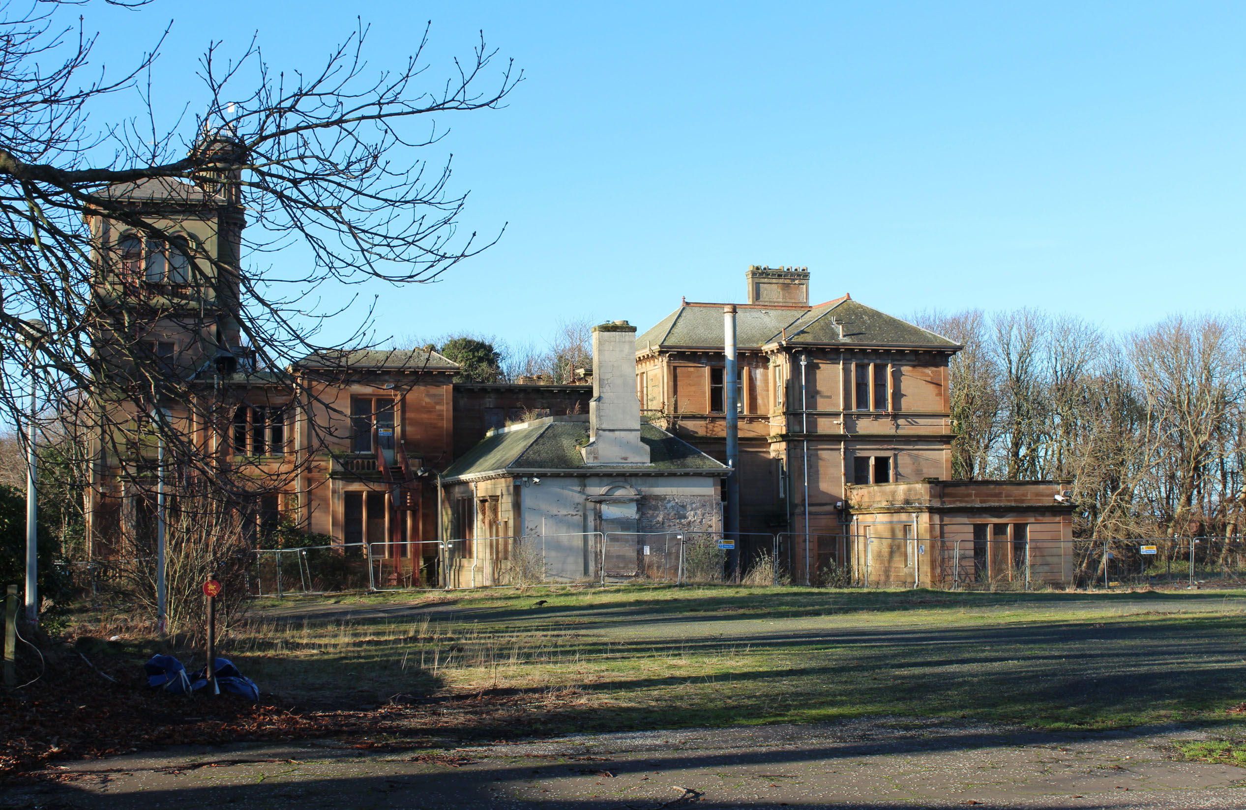 Site of the Old Seafield Hospital